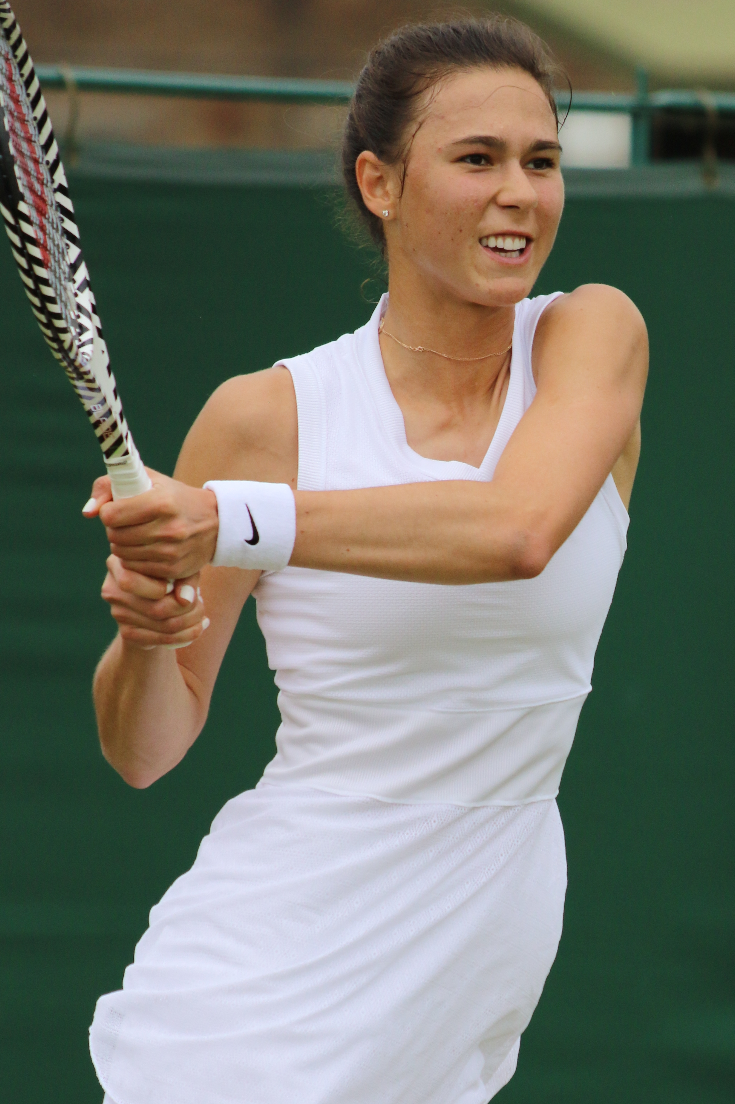 2019 Wimbledon Qualifying Tournament.